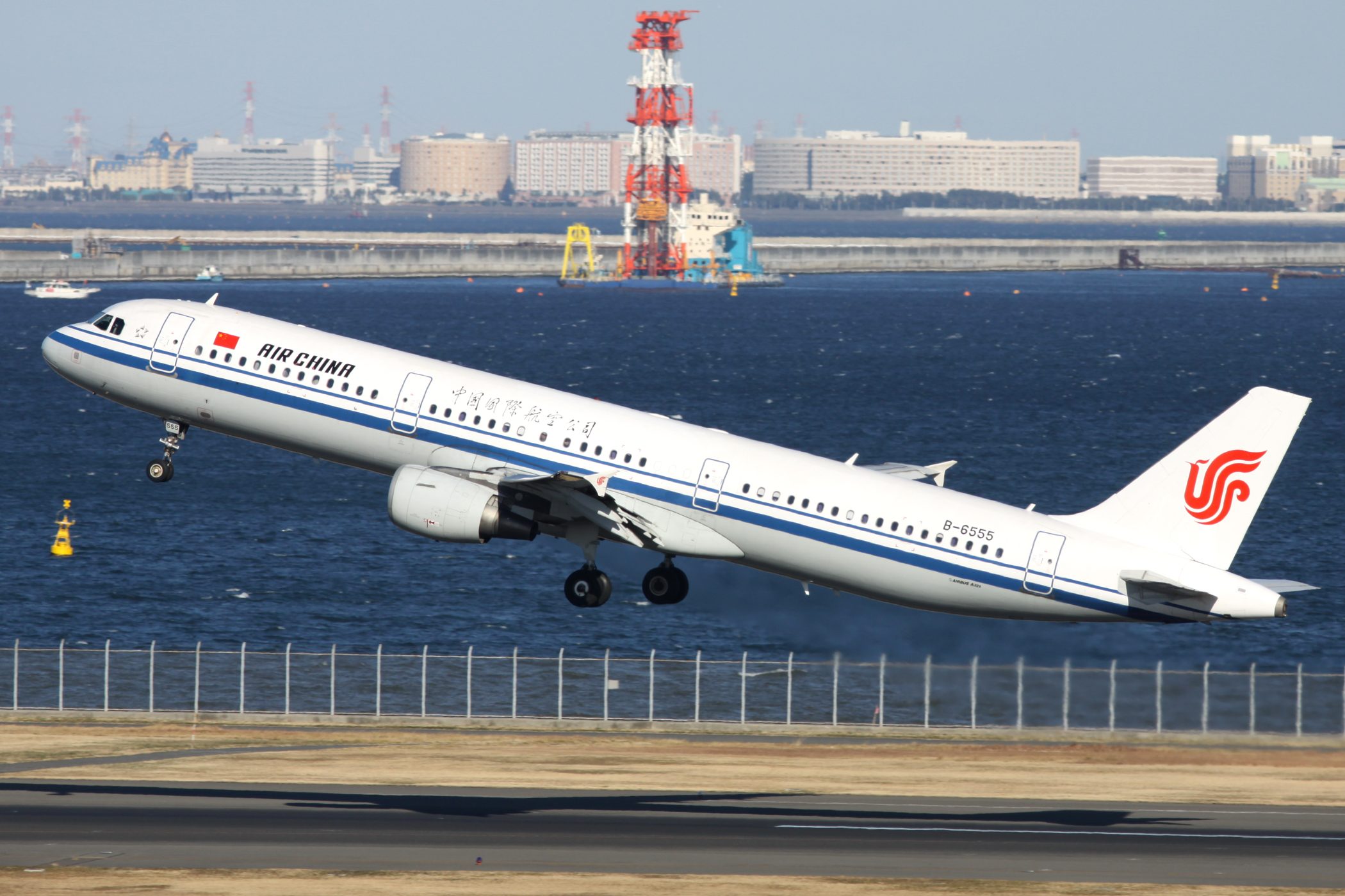 Tokyo International Airport, Airbus A321-213, c/n:3766, Air China